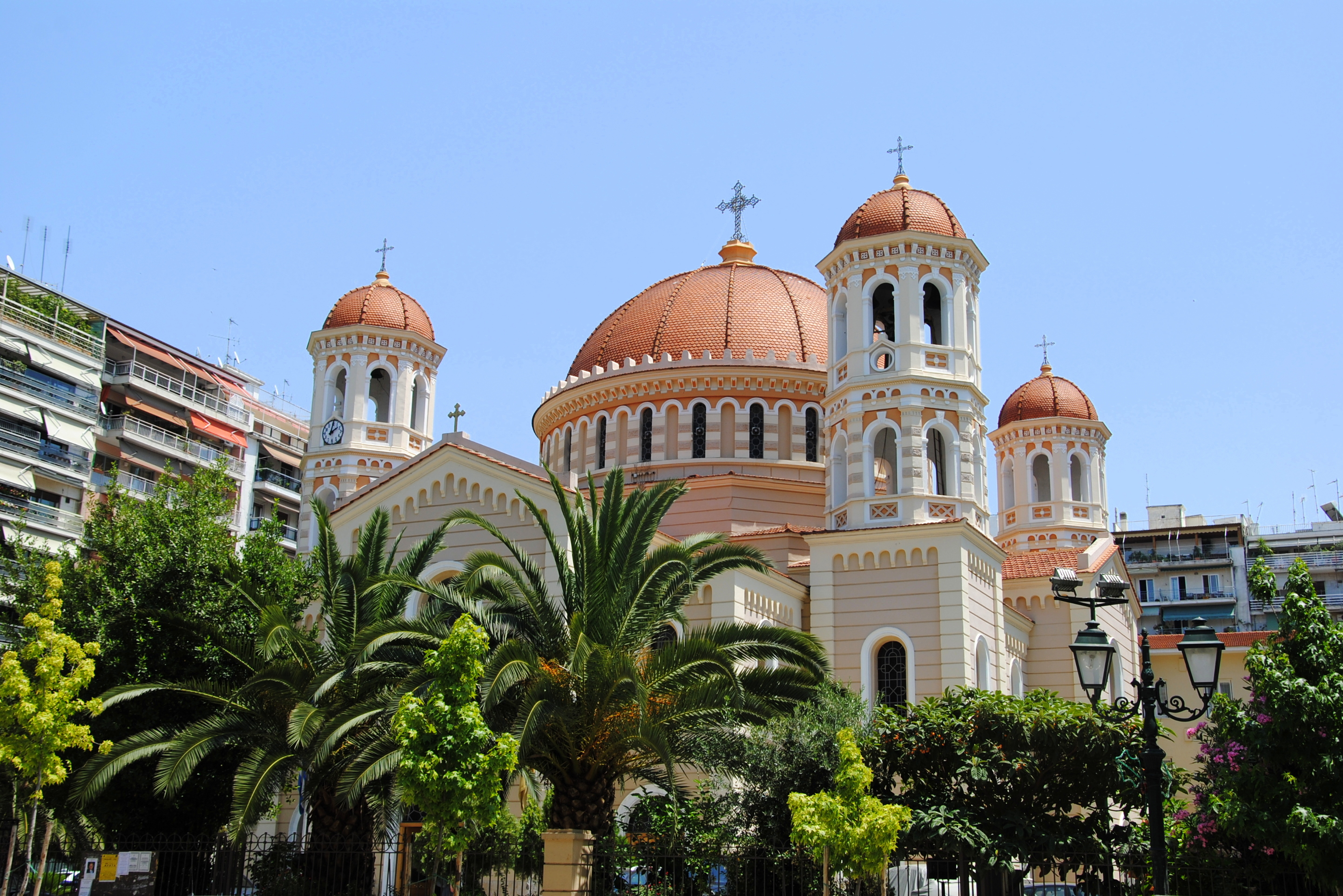 Metropolitan Church of Saint Gregorius Palamas. Thessaloniki, Greece